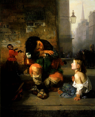 James Edward Freeman (1808-1884), The Savoyard Boy in London, 1865, Oil on Canvas, 54-1/2” x 43-3/4” (138.4 x 111.2 cm). Smithsonian American Art Museum Museum purchase 1978.121 Not currently on view, Data Source: Smithsonian American Art Museum